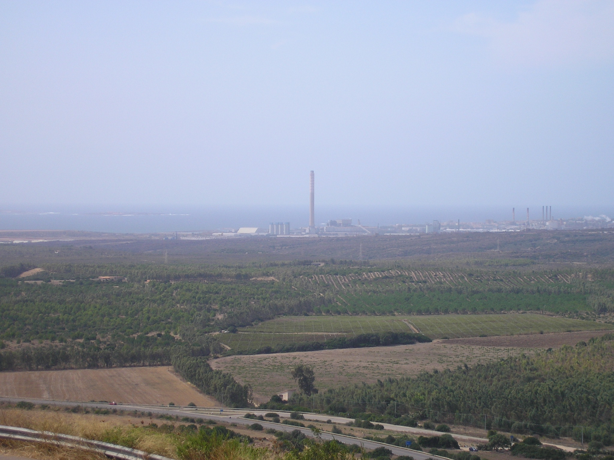 View of Portovesme industries from Monte Sirai, near Carbonia, in Sardinia, Italy